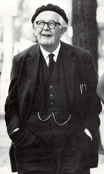 Photograph Jean Piaget at the University of Michigan campus in Ann Arbor.